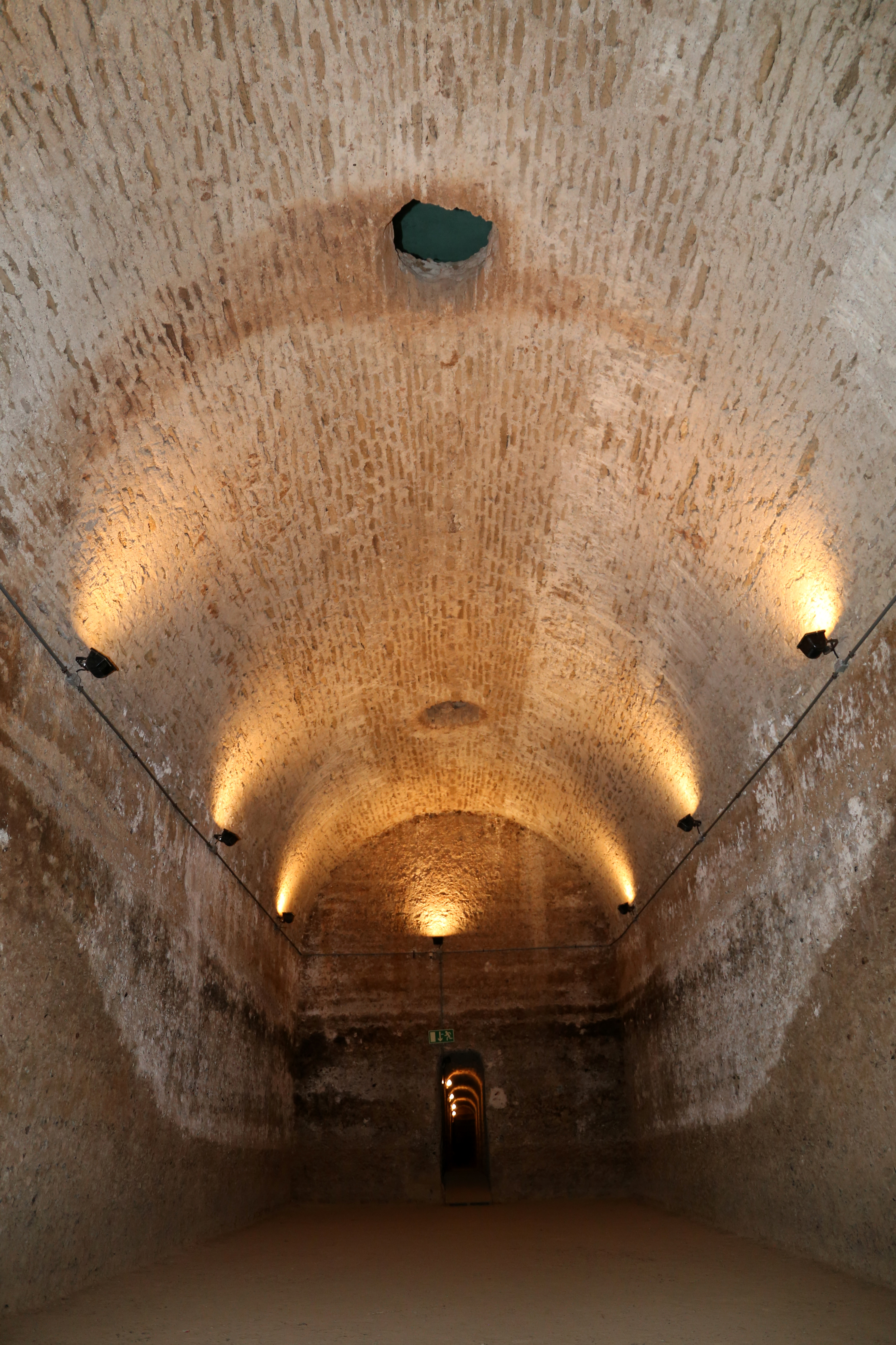 Archaeological site of San Vincenzino - Cistern